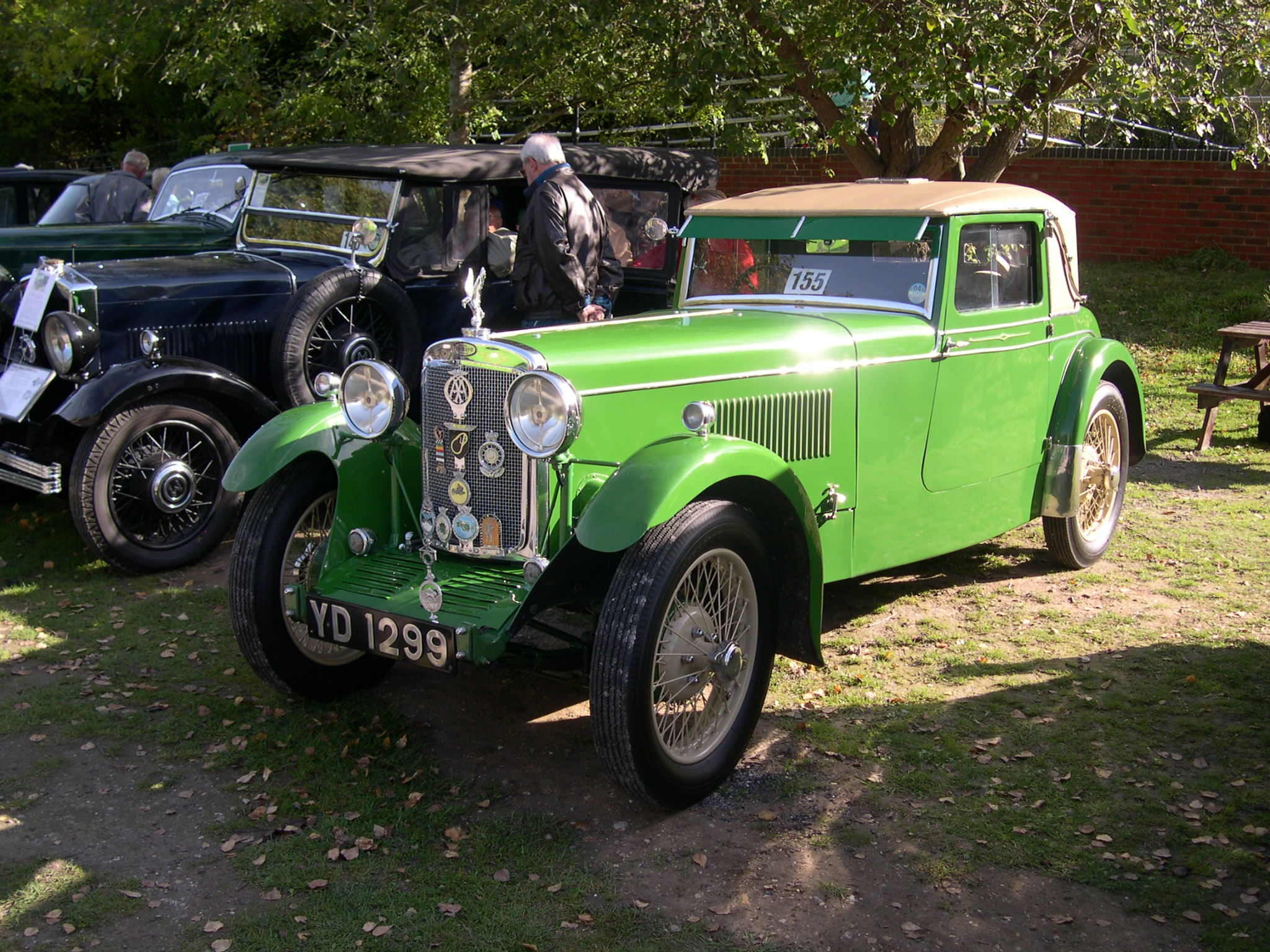 1930 Avon Standard Sixteen Swan coupé 2005 - Amberley Autumn Vintage Vehicle Show Chassis no. 115382 Engine no. A200006 info